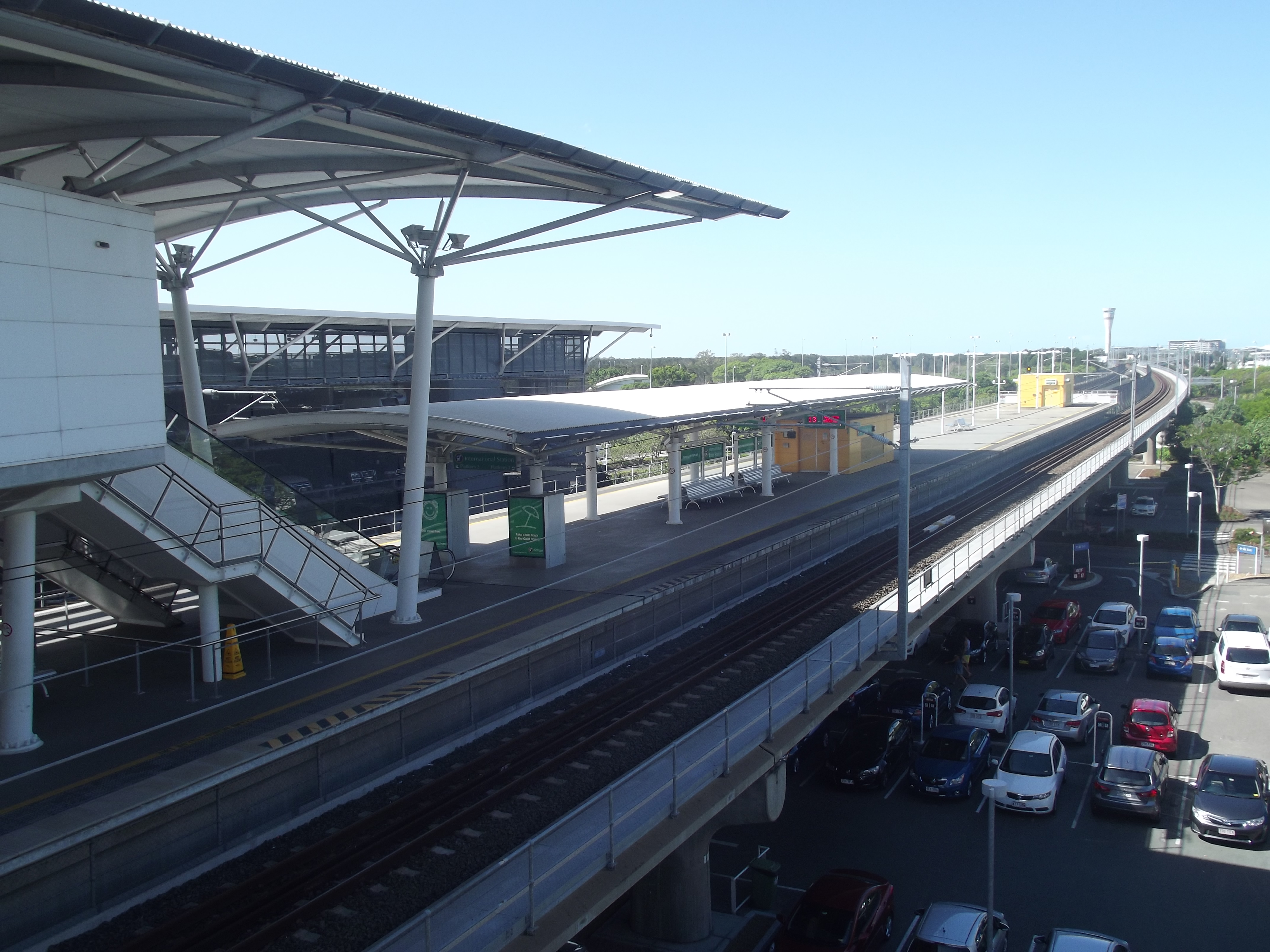 The international airport station in Brisbane owned by AirTrain.